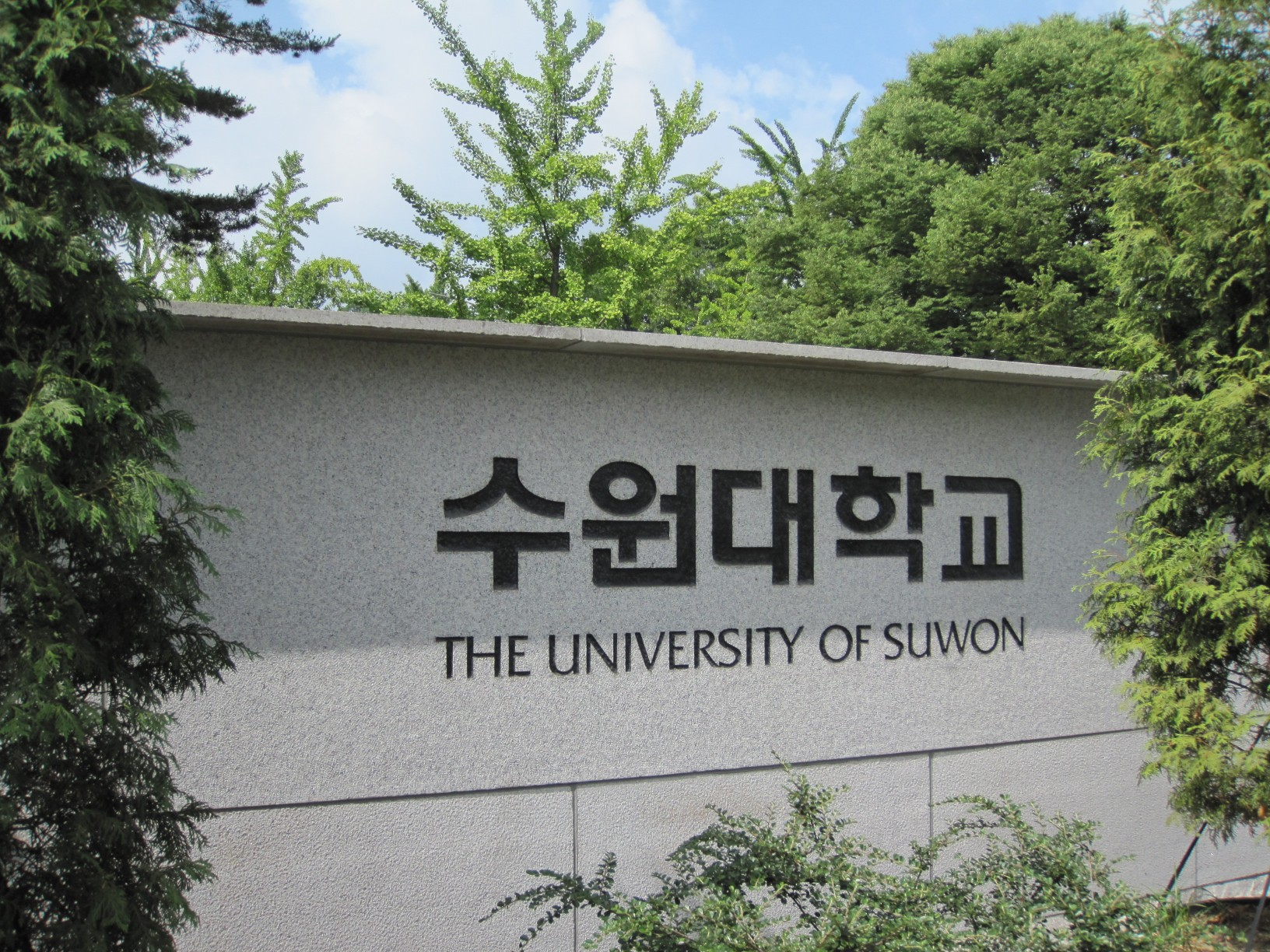 Sign at the University of Suwon front gate, taken in 2015